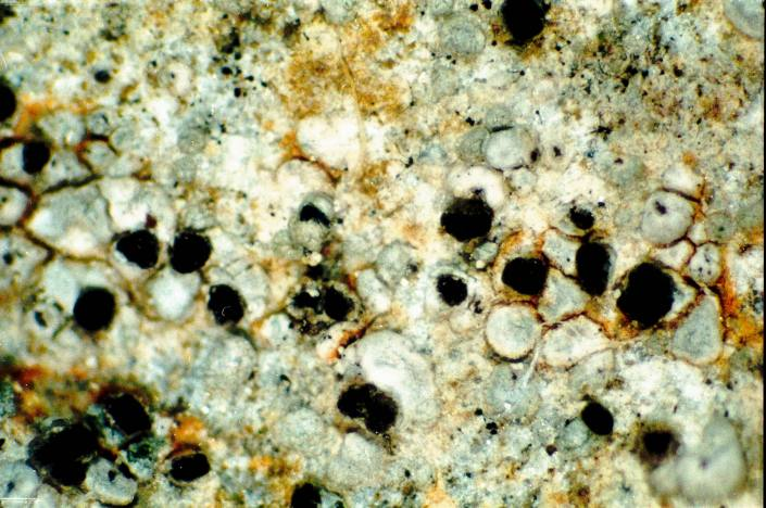 Trapelia involuta (Taylor) Hertel, 1973 Photograph of a herbarium specimen taken through a dissecting microscope (x40) showing dispersed areoles and nearly black apothecia. (medulla KC+ pink, C+ red). This herbariuim specimen of Trapelia involuta was growing on a small, flat, sandstone rock along the trail up Black Mountain, just S of Tunk Lake, NE of Ellsworth in Hancock County, Maine, USA (Lat. 44o35' N, Long. 68o06' W, elevation 200 meters). Collected and identified by E.C. Uebel (No. U-574-1, 11 Jul 2005).